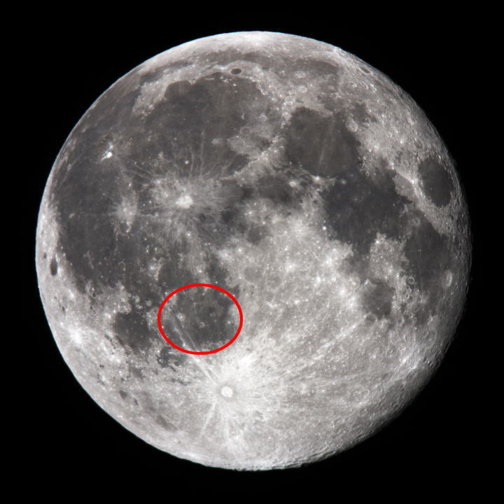 The Location of Mare Nubium, One of the Lunar Geographical Features.